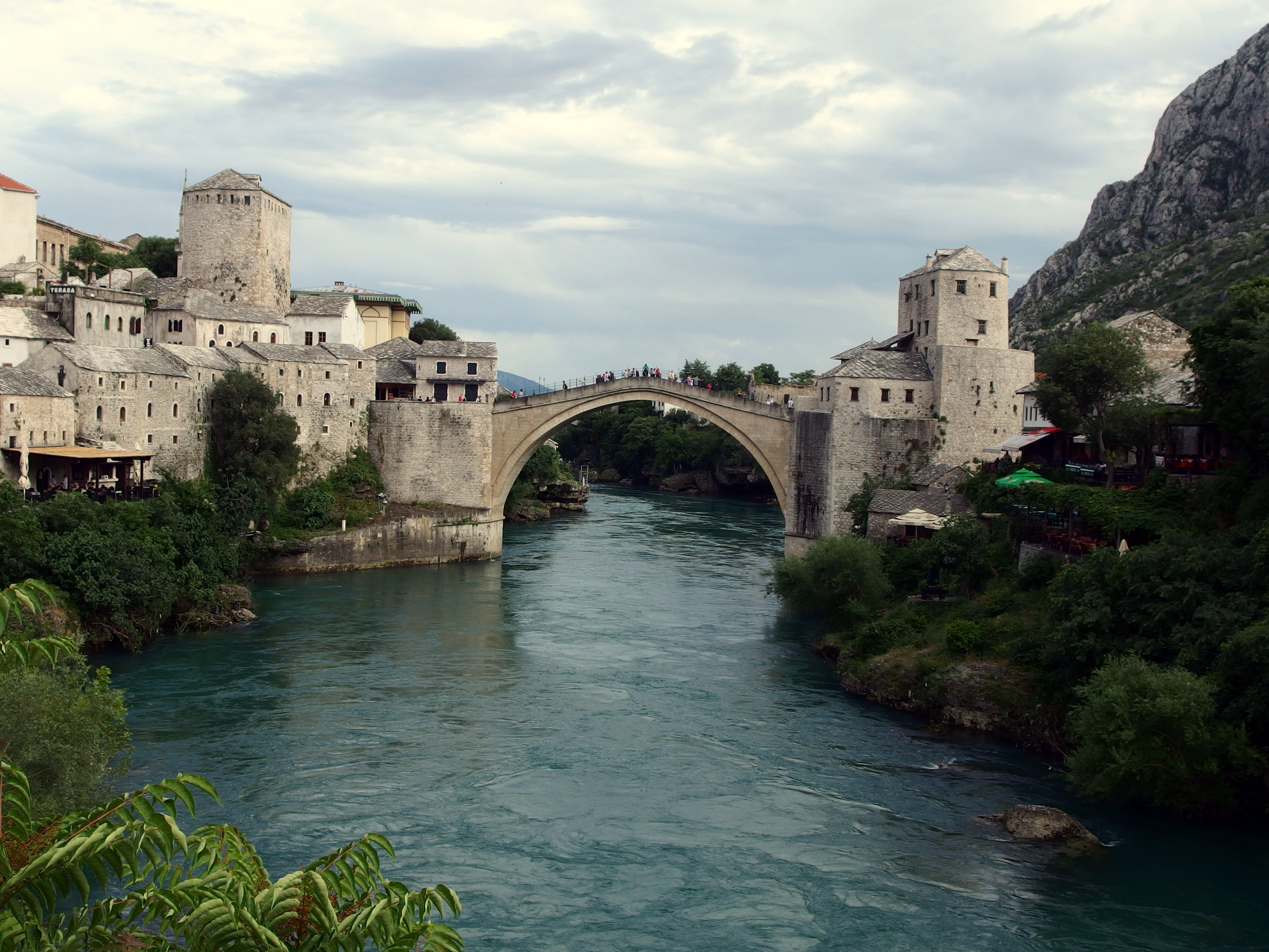 2013-06-06 in Mostar.